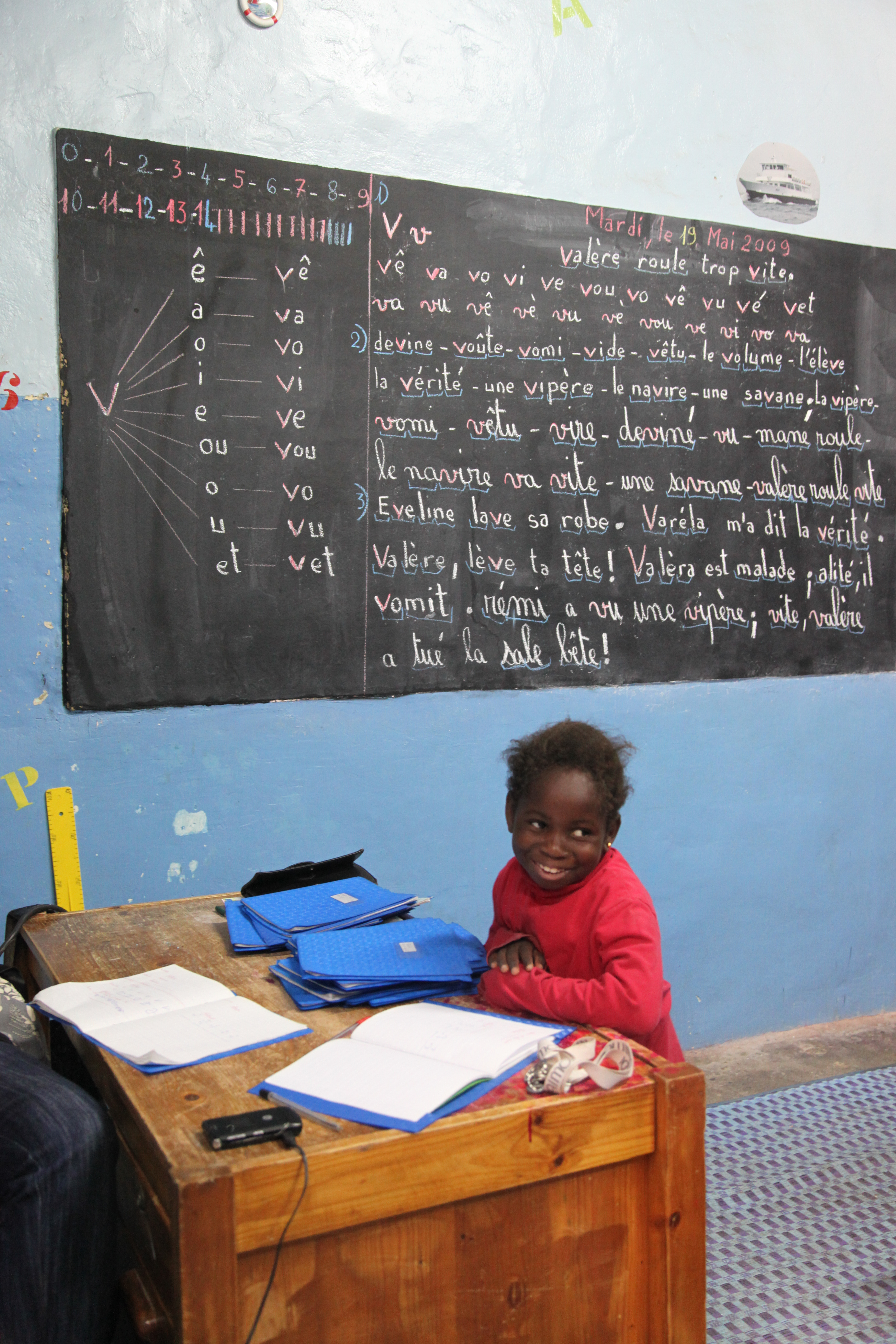 Schoolgirl in Gorée (Senegal)